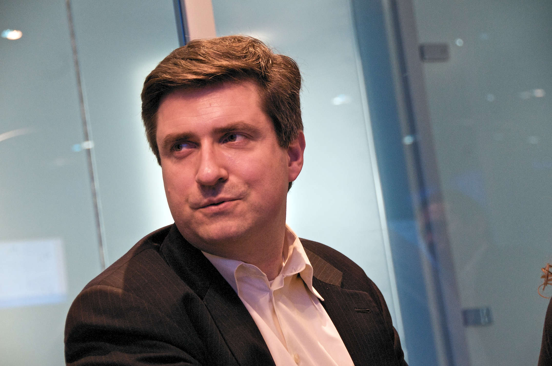 California Attorney General Candidate Chris Kelly in January 2010